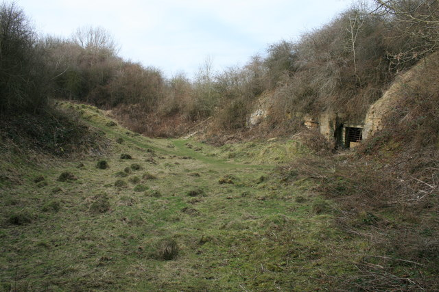 Brown's Hill Quarry Puts me in mind of Clive Kings' "Stig of the Dump" (minus the rubbish of course).